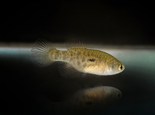 Simpsonichthys notatus, female specimen